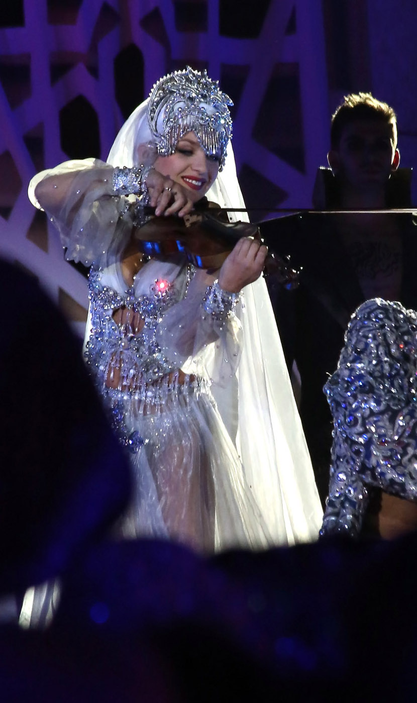 Lidia Baich, opening show of Life Ball 2013 at the city hall of Vienna, Vienna, Austria.